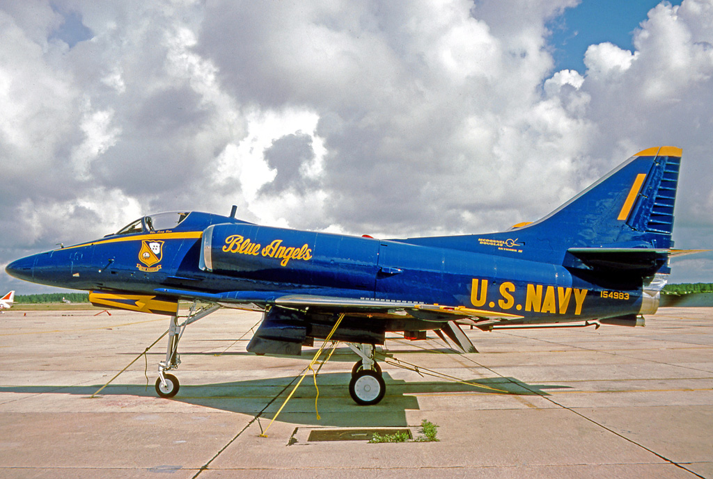 Douglas A-4F Skyhawk 154983 of the Blue Angels USN aerobatic team at NAS Pensacola in 1975